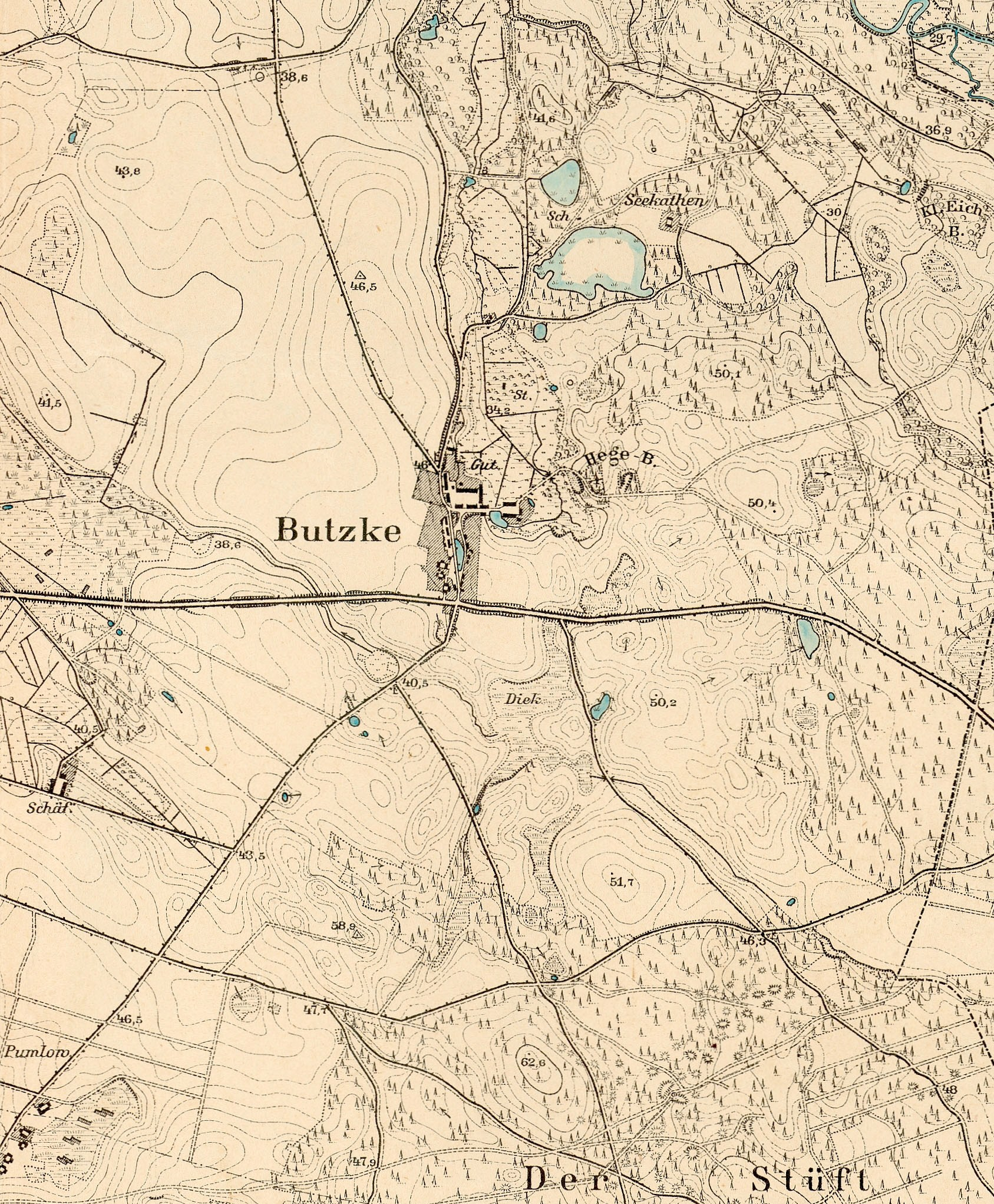 Butzke historical map 1891